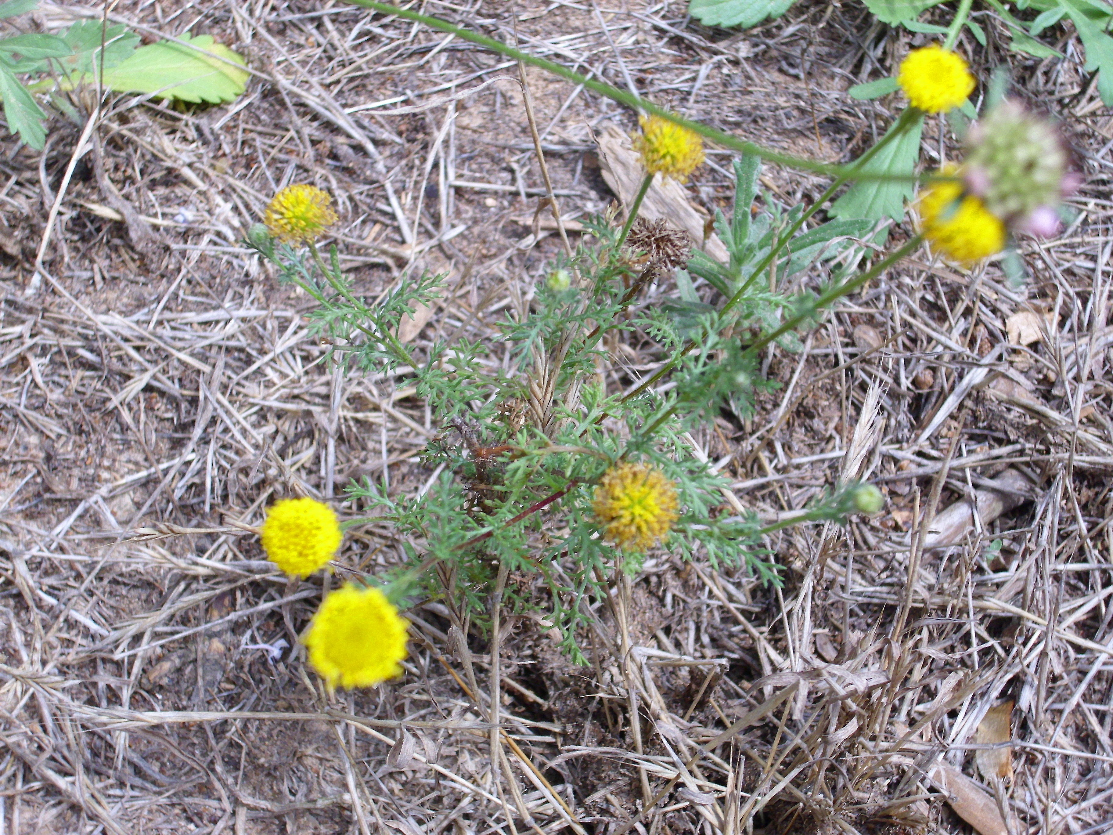 Anacyclus valentinus habit, La Mata, Torrevieja, Alicante, Spain.